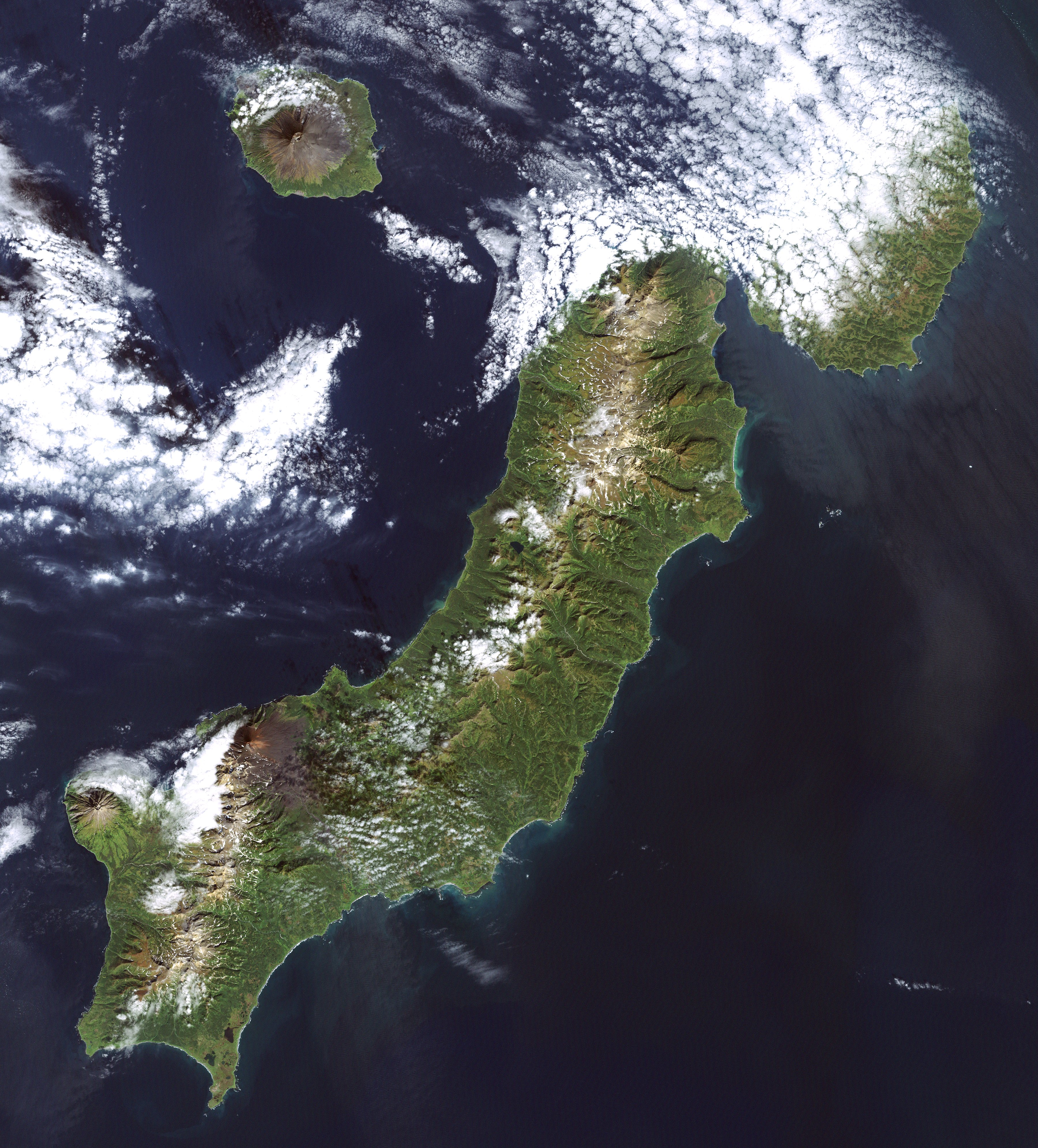 Landsat 7 image of the Kuril Islands of Paramushir, Atlasov, and Shumshu, 28.5 meter resolution. (Shumshu is mostly cloud-covered.) Based on Global Orthorectified Landsat dataset (ETM+); WRS_PATH 100, WRS_ROW 025. Generated using "true-color" combination of bands 3, 2, & 1 as R, G, B respectively. Color curves enhanced in the Gimp.